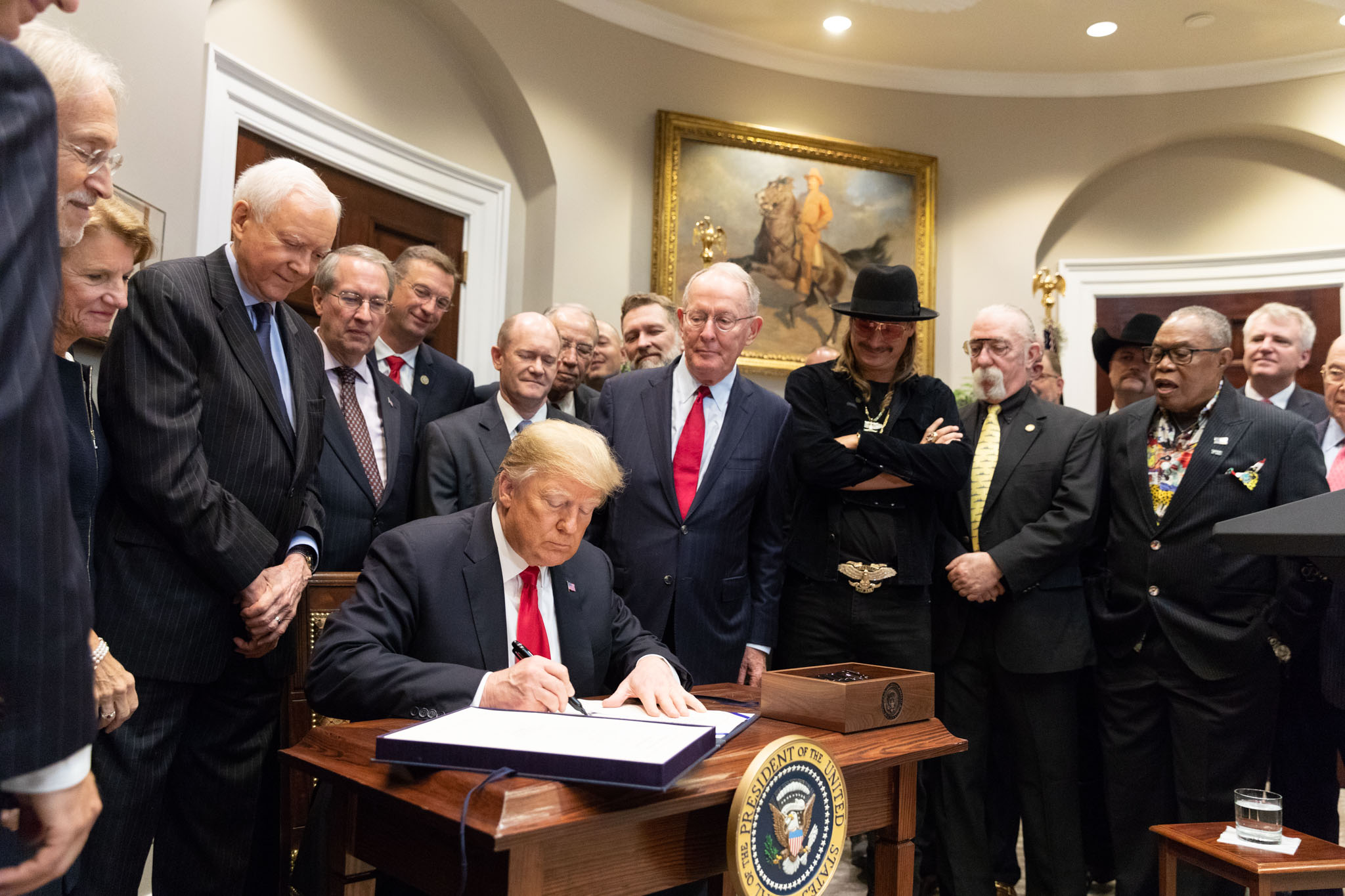 President Donald J. Trump signs the Music Modernization Act, October 11, 2018 in the Roosevelt Room of the White House (Official White House Photo by Joyce N. Boghosian)